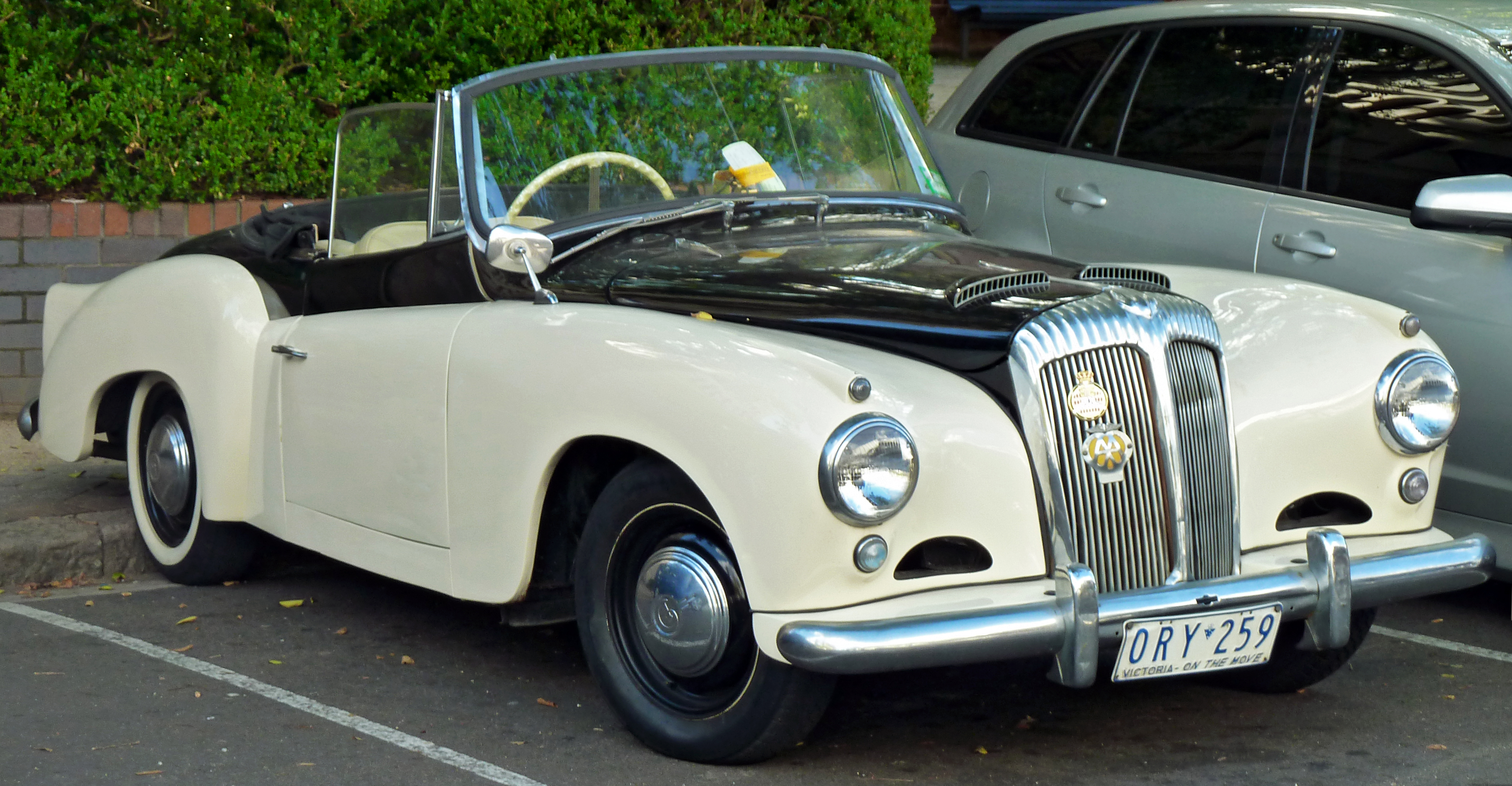 1957 Daimler Conquest (Mark II) Century drophead coupe. Photographed in The Rocks, New South Wales, Australia. Vehicle registration enquiry results Jurisdiction Victoria Registration ORY259 Chassis code 90537 Engine code 73961 Compliance date Not available Year of manufacture 1957 Chassis numbers as per The Daimler Tradition by Brian E Smith Type DJ 254/5 Roadster 90450–90497 90850–90866 Drophead coupé 90500–90553